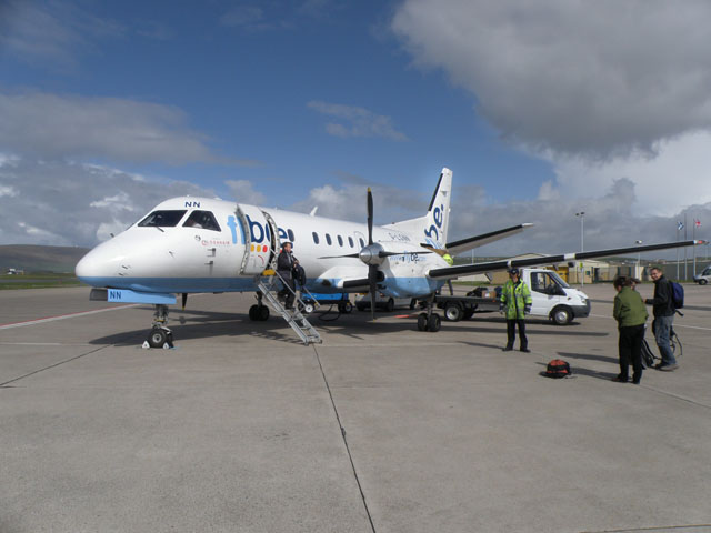 A Loganair Saab 340 in Flybe livery, having just arrived at Sumburgh.